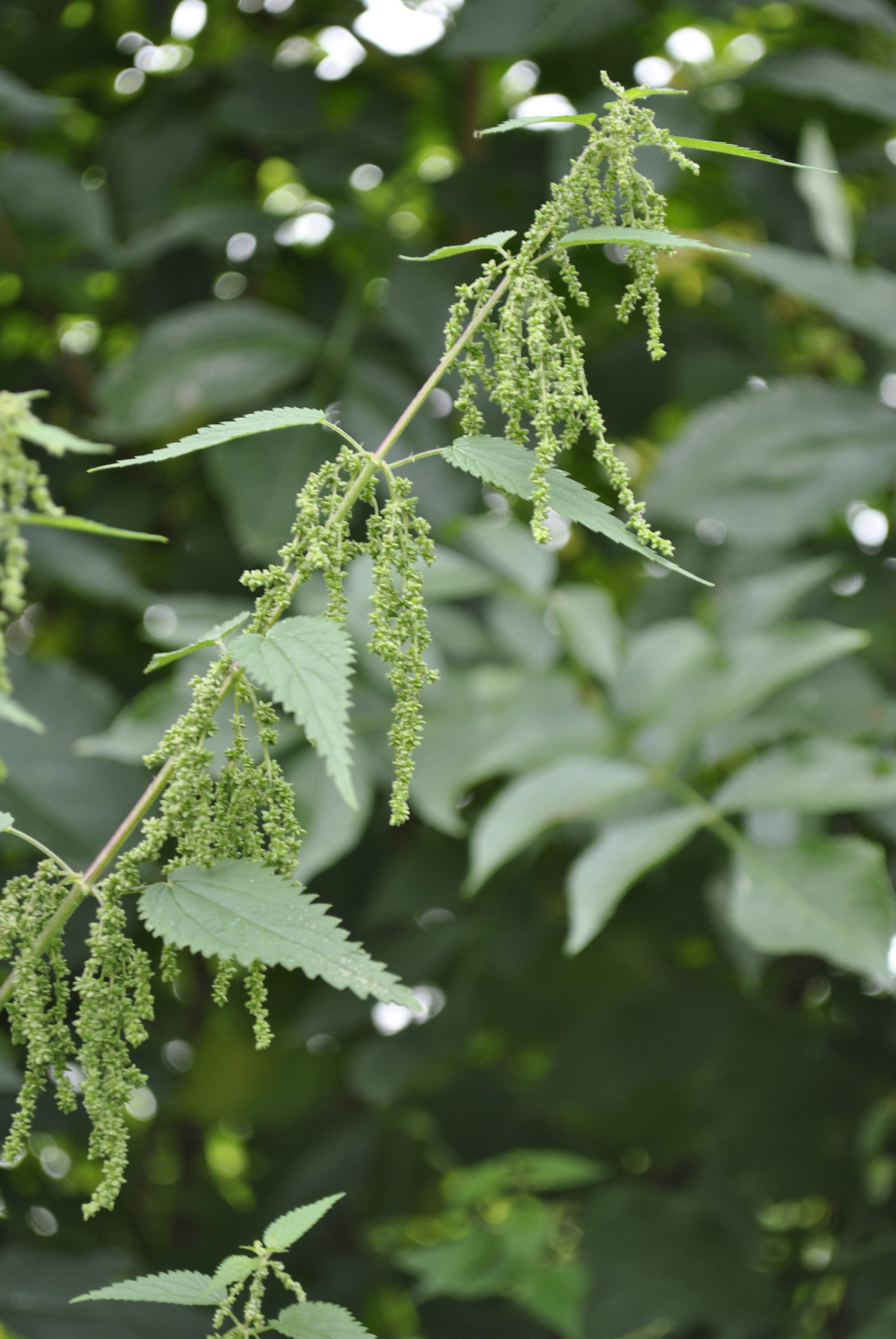 Urtica dioica, Location: northern Italy